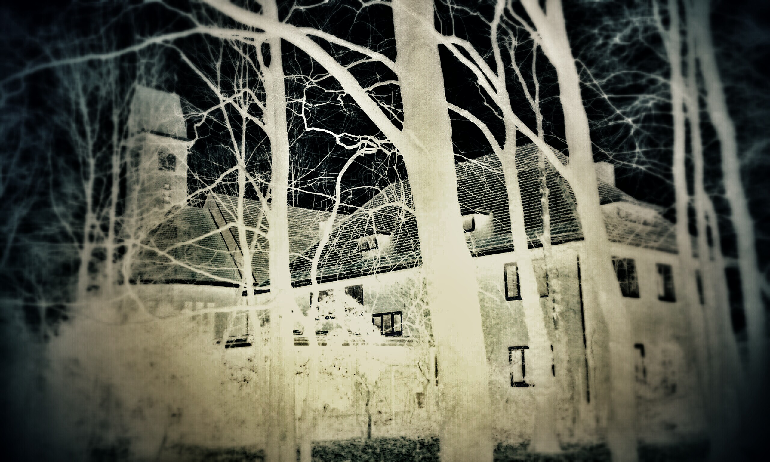 Onze-Lieve-Vrouw-Onbevlekt-Ontvangen kerk en pastorie gezien vanuit het Patersbos (nov C. Van der Voodt in “nieuwe zakelijkheid”)